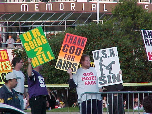 Westboro Baptist Church members from Topeka, Kansas protesting in front of RFK Stadium located in Washington, D.C.